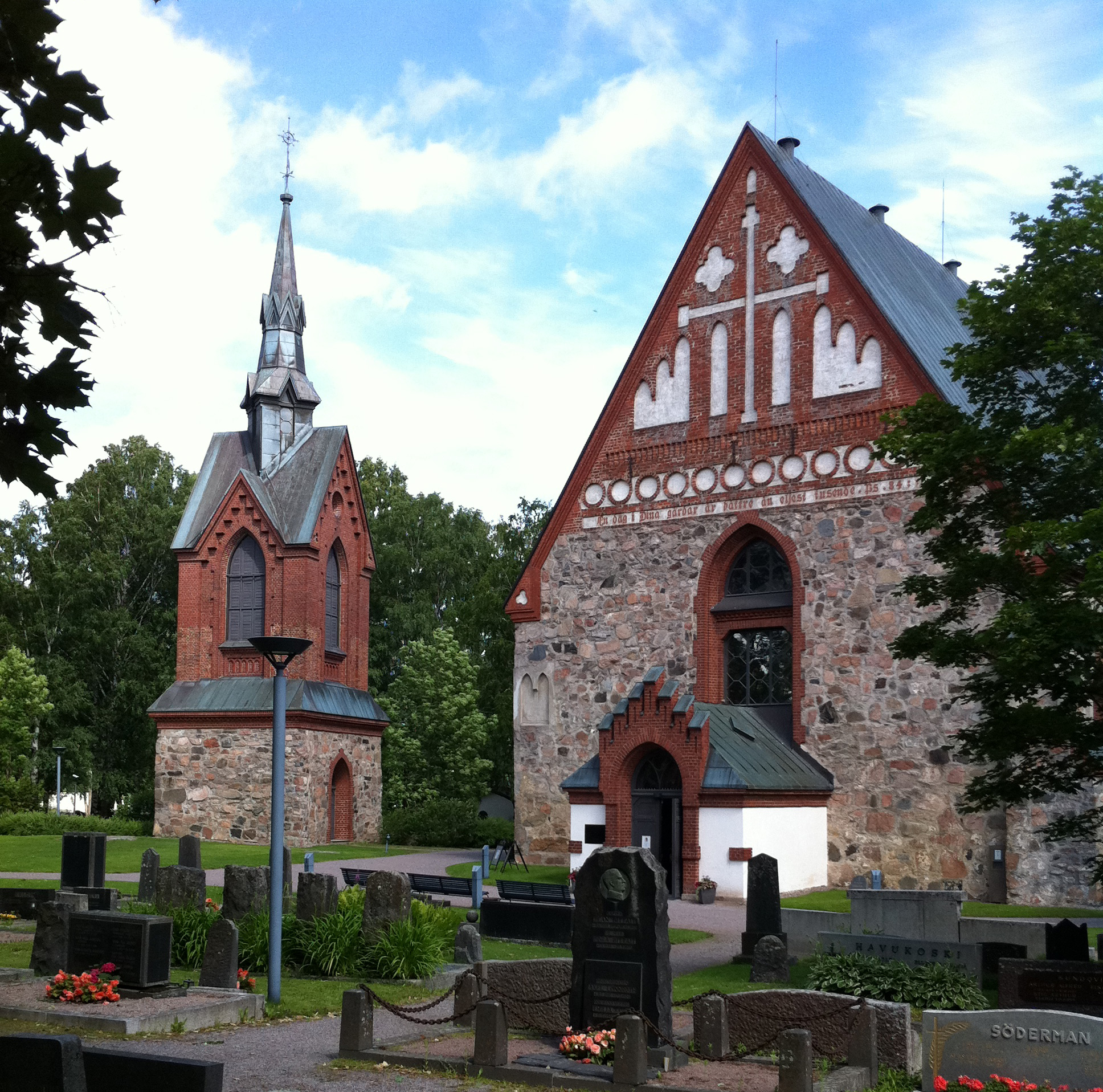 St. Lawrence's Church and bell tower in Vantaa, Finland.